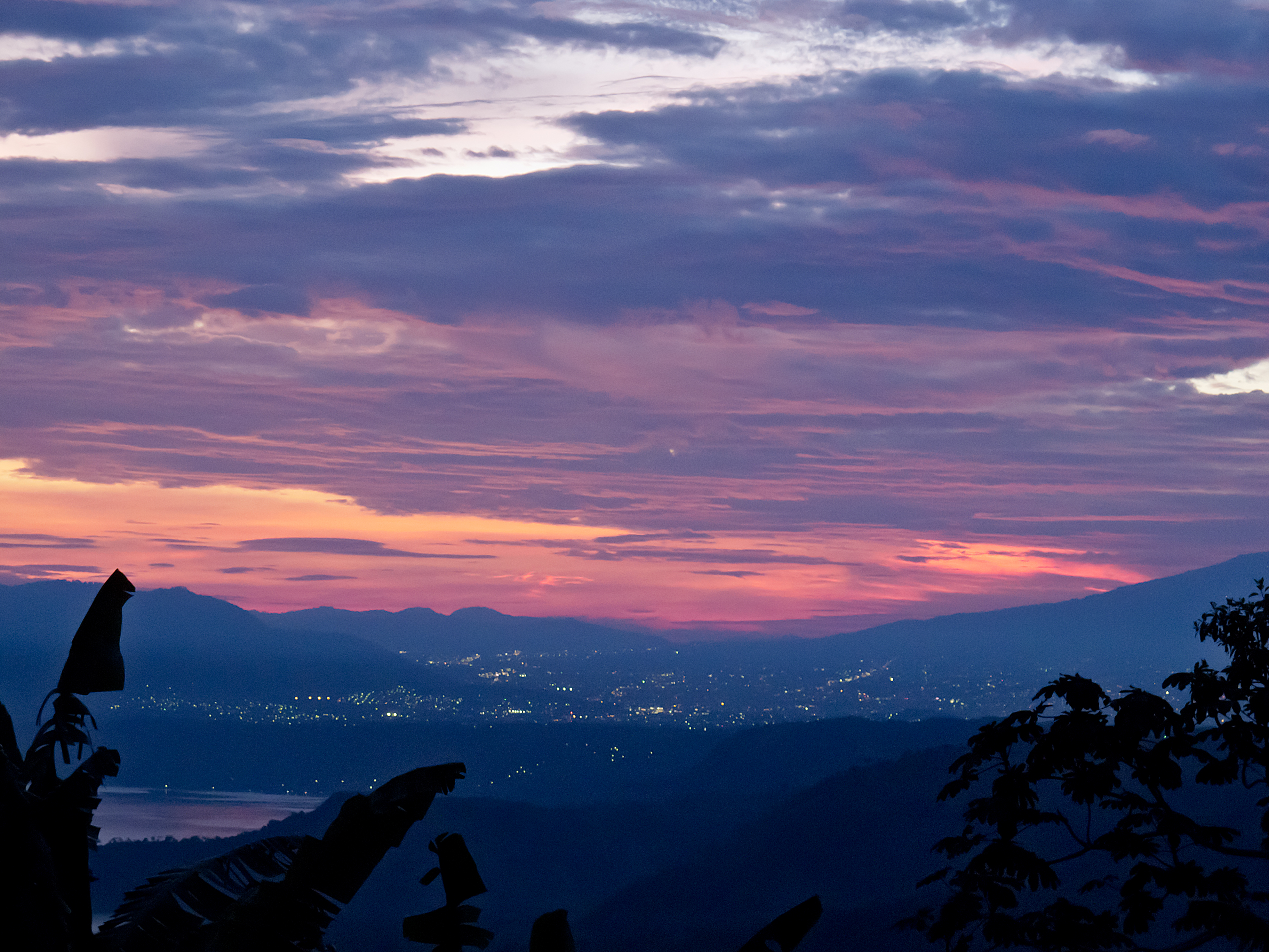 View of Lake Ilopango (a volcanic lake), as seen from Cojutepeque, Department of Custcatlán, El Salvador